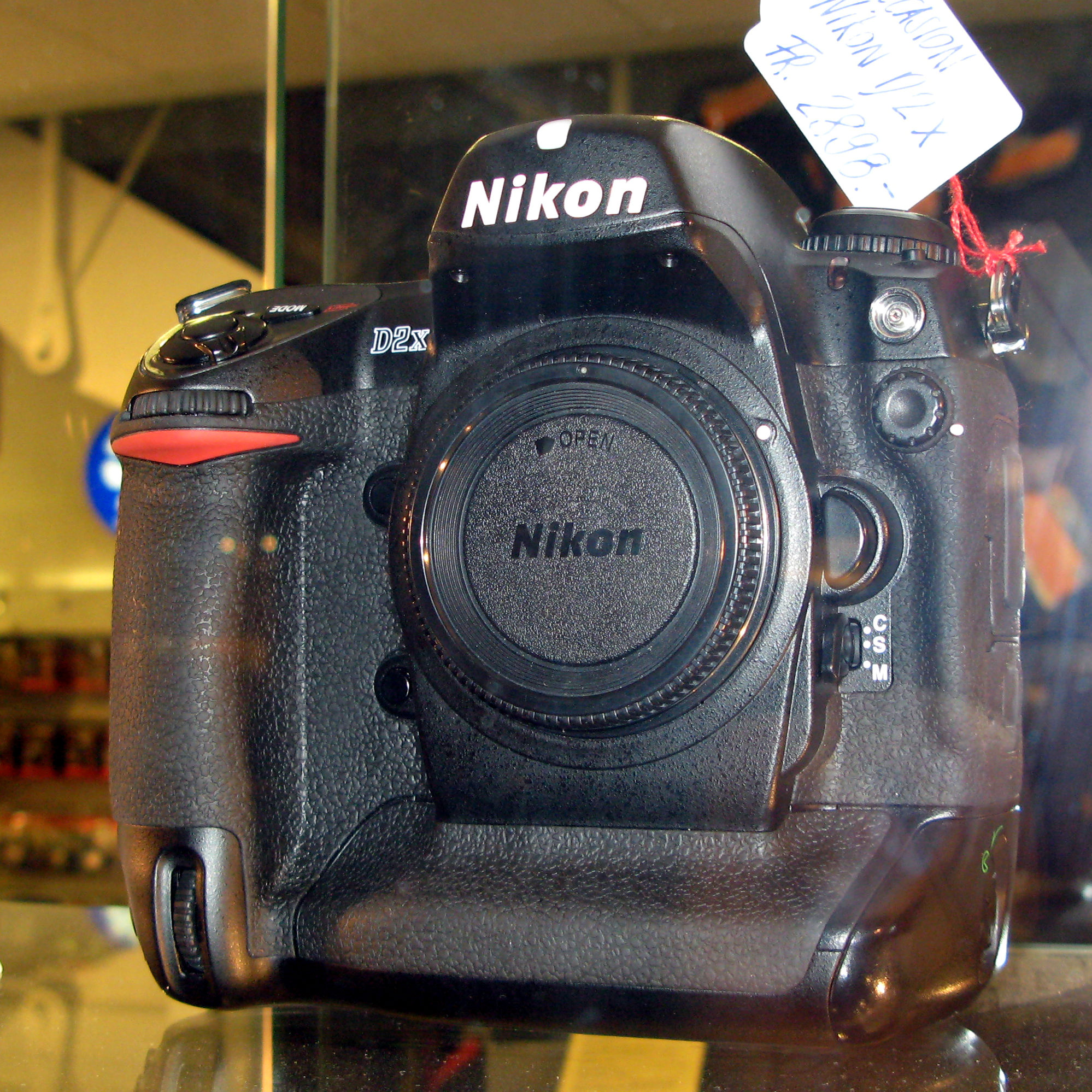 Nikon camera